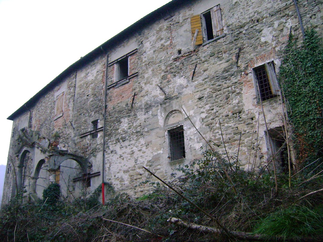 The castle of Cusercoli